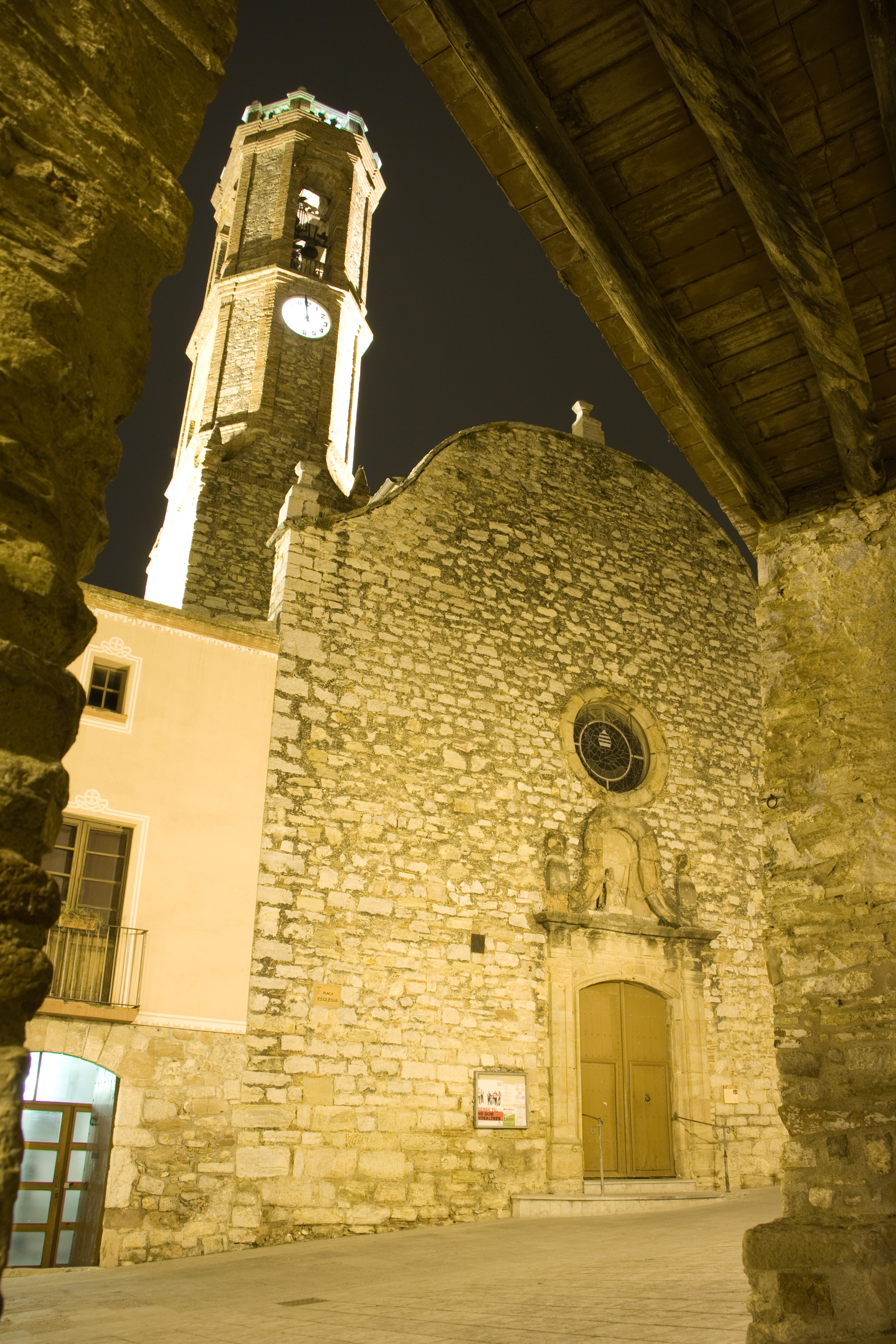 Sant Corneli Church